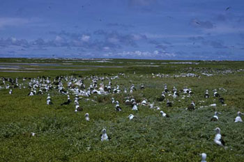 Colony of Lesser Frigate Birds (Fregata ariel) on McKean Island, Phoenix Islands, Kiribati. Original field notes: Dominant vegetation is puncture vine (Tribulus cistoides), an extremely spiny vine which punctures not only bare feet but shoes as well! The 3-sided seeds, with tough, needle-like thorns, are adapted to attaching to bird feathers and thus effecting seed dissemination between islands. Here we have another wonderful Lesser Frigatebird colony: in the 1960's (last censuses) nos. ranged from 30,000-35,000 pairs, which makes this the largest colony in the world, along with a similar colony on nearby Phoenix Island (16,000-45,000 prs)